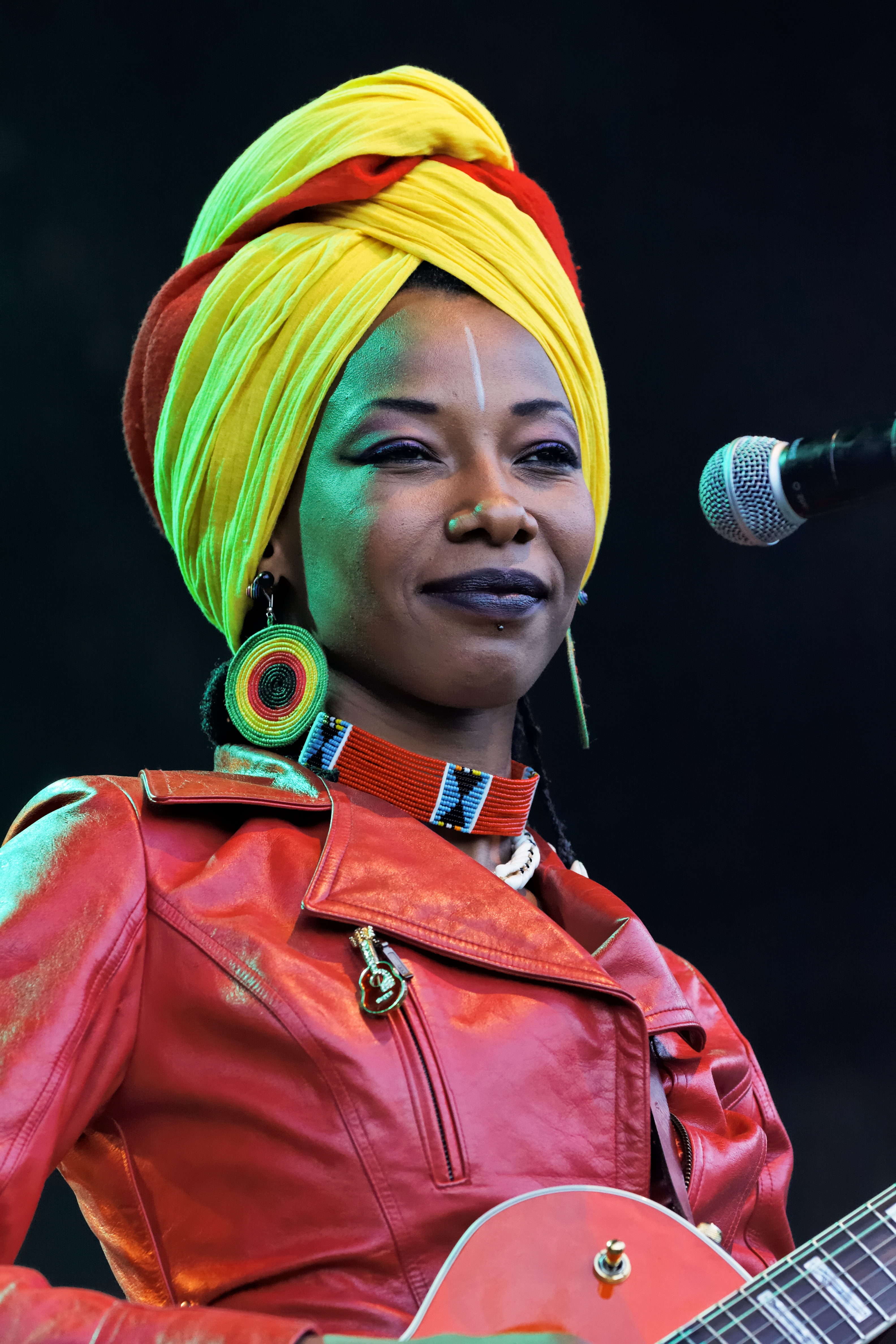 Fatoumata Diawara in concert on the Kermarrec stage at Festival du Bout du Monde in Crozon in Brittany (France). This version has been edited to avoid a blue overcast in the original